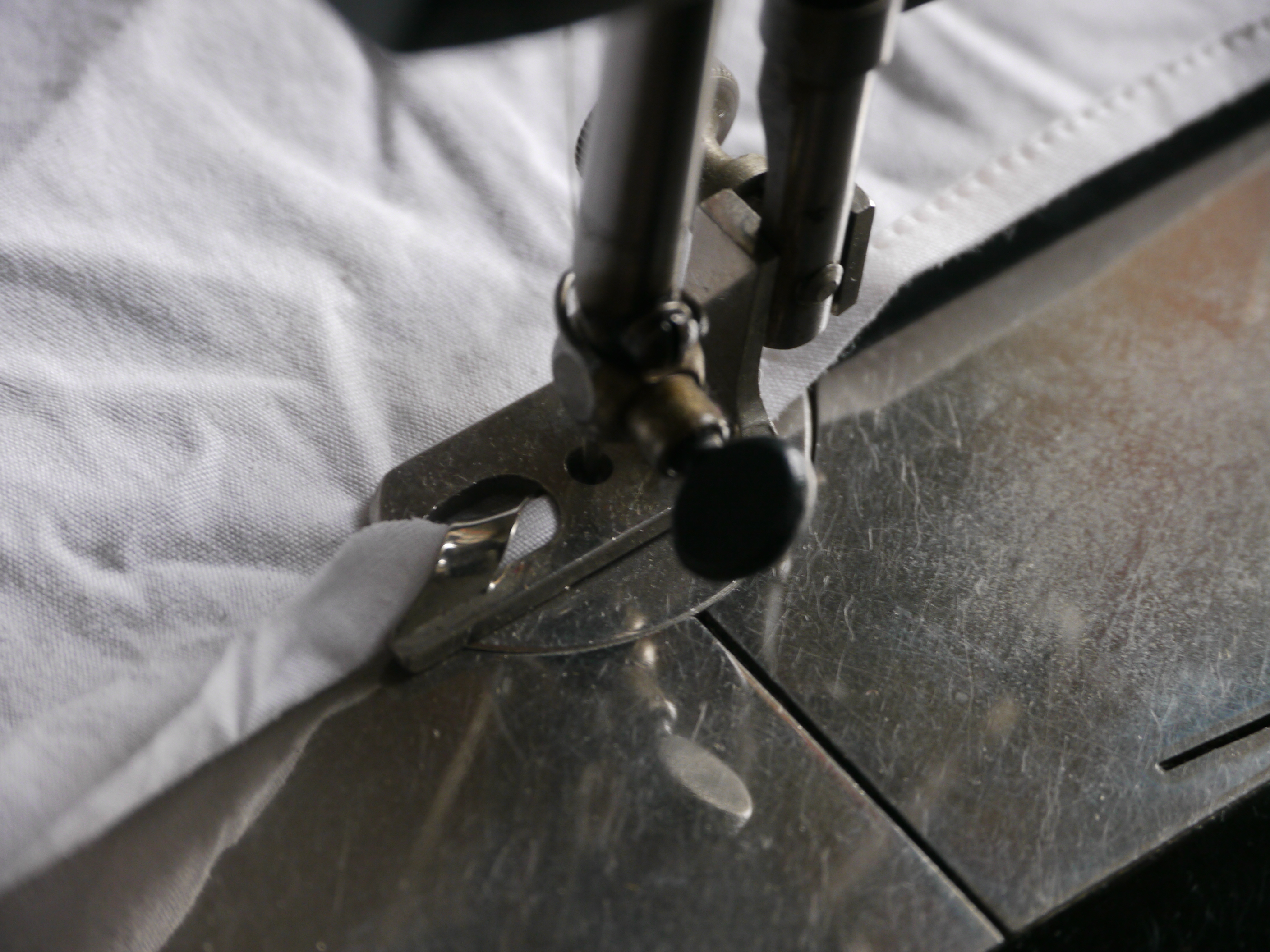 Presser foot for making seams.